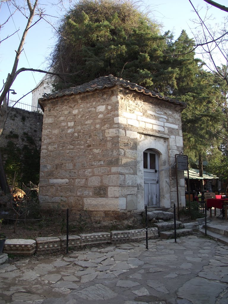 Mausoleum of Nigar Hatun, located at Yivliminare Mosque, Antalya.